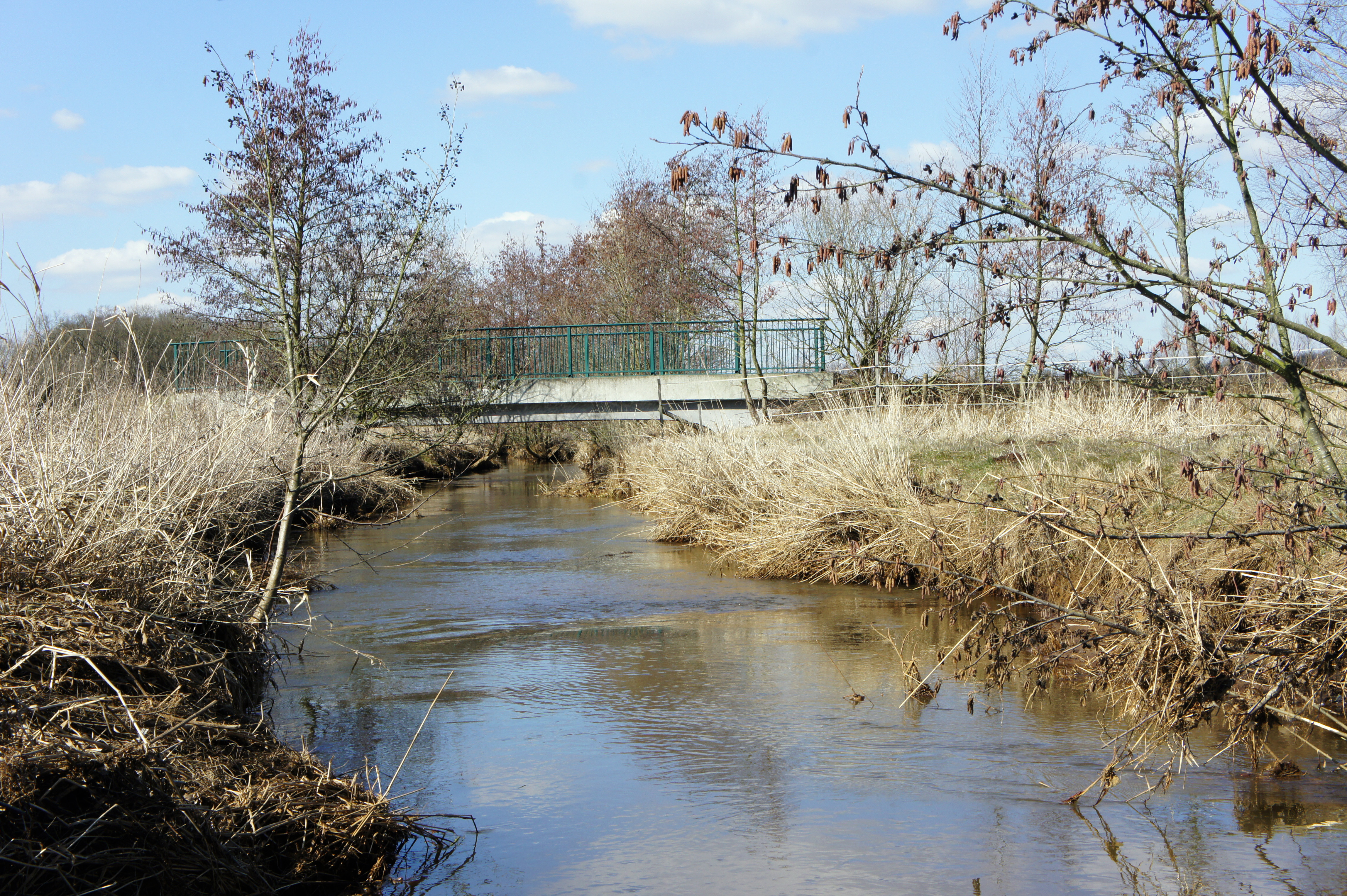 The Delme near Klein Henstedt